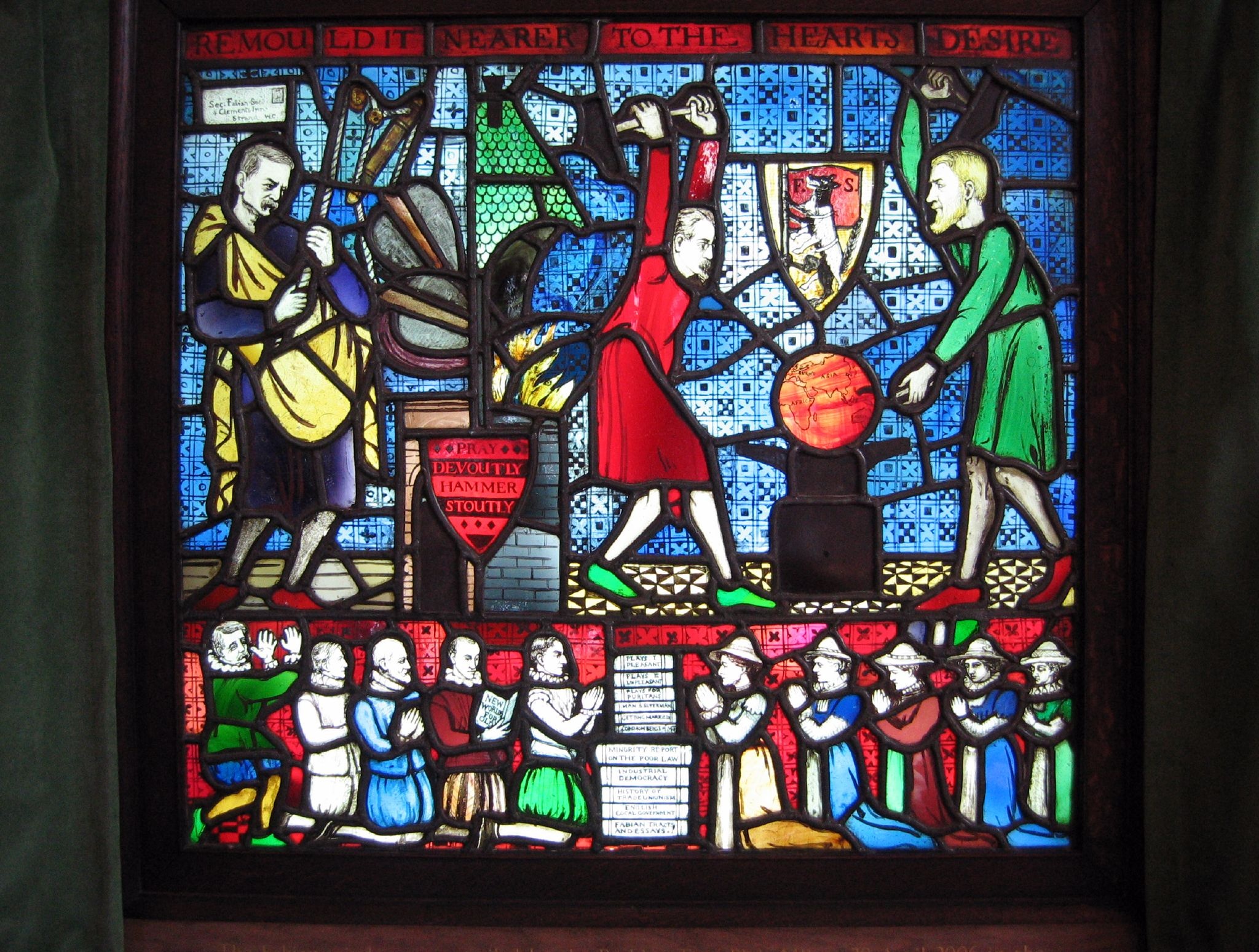 Designed by George Bernard Shaw and created by Caroline Townshend in 1910 as a commemoration of the Fabian Society. It shows Shaw with Sidney Webb and ER Pease, among others, helping to build a new world: 'Remould it nearer to the heart's desire'. Currently housed in the Shaw Library at the London School of Economics (founded by Sidney and Beatrice Webb and Shaw).